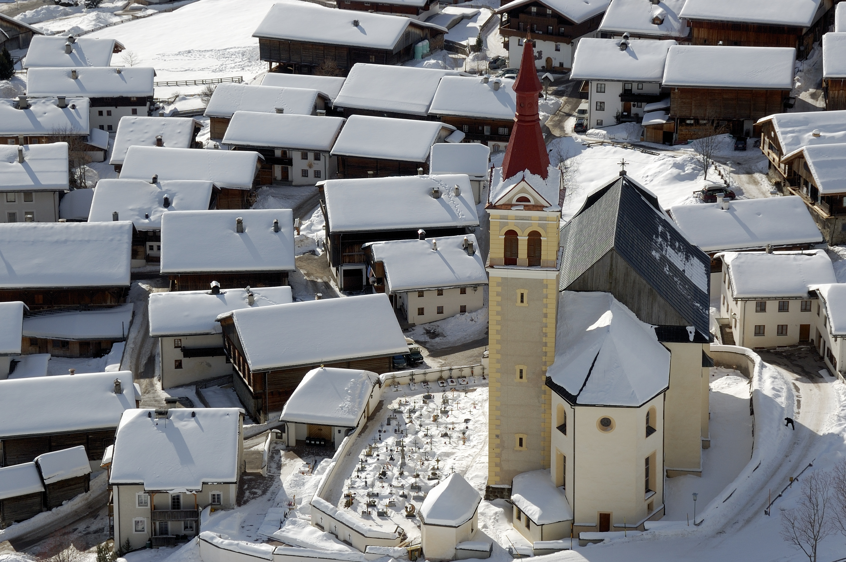 Roman Catholic parish church Saint Ulrich in Obertilliach, East Tyrol (Osttirol).